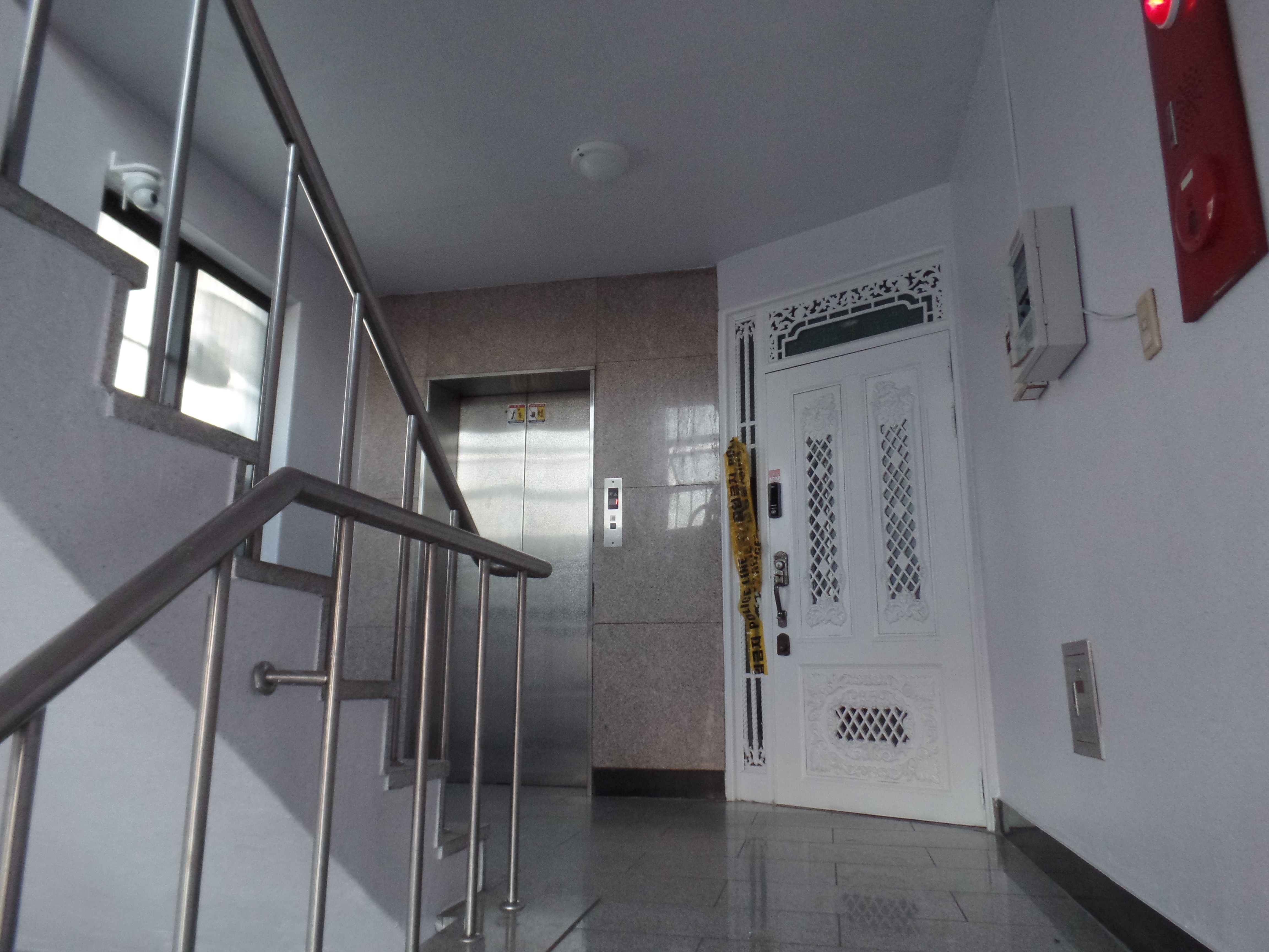 Site of occurrence Lee Young-hak case(Jungnang-gu Middle School girl Murder case) (Door of Lee Young-hak's Home, Door of Where the Lee Young-hak case occurred)